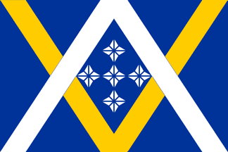 Flag of SAVA